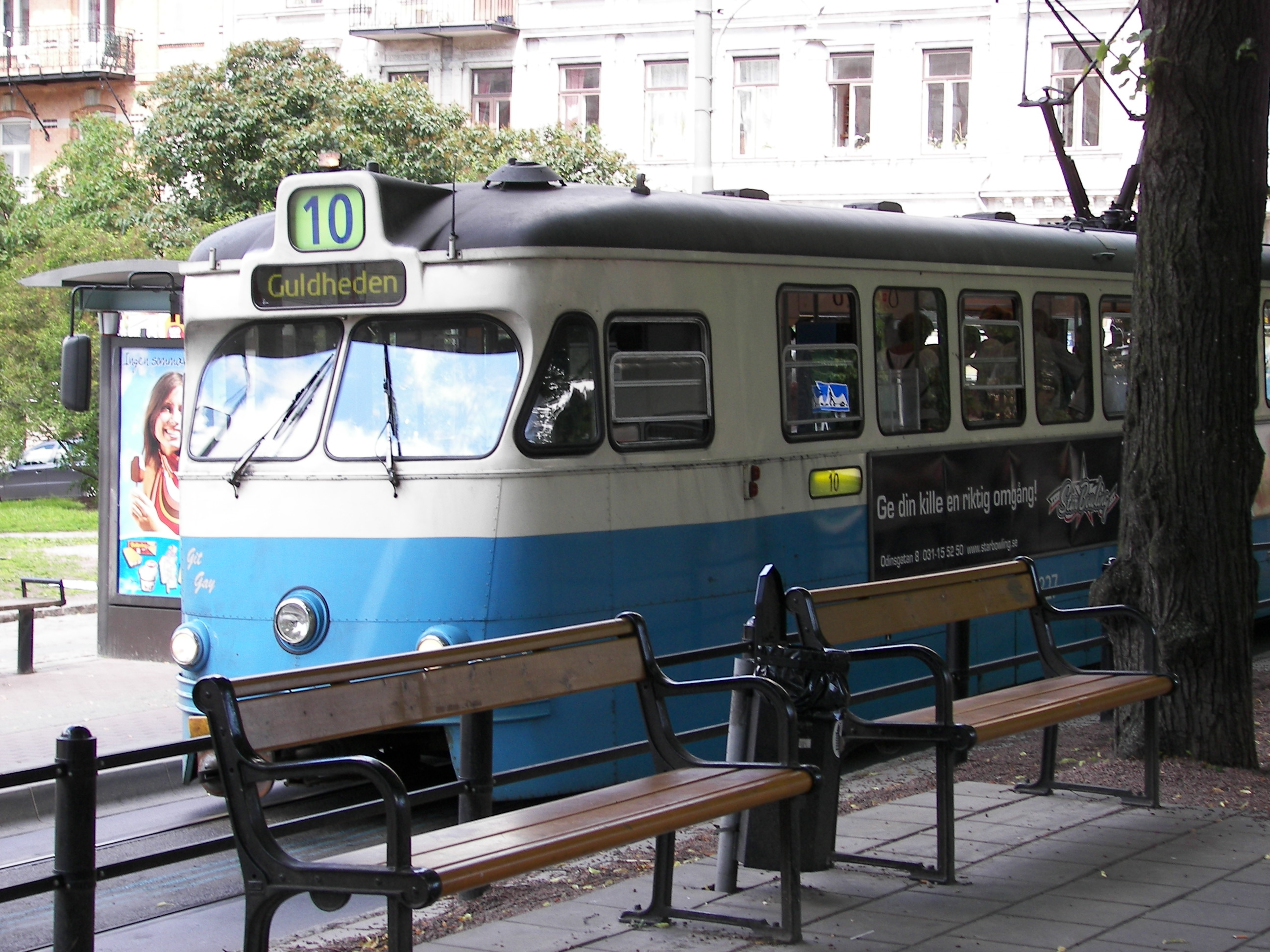 M29 tram number 827 at Vasaplatsen in Göteborg, Sweden